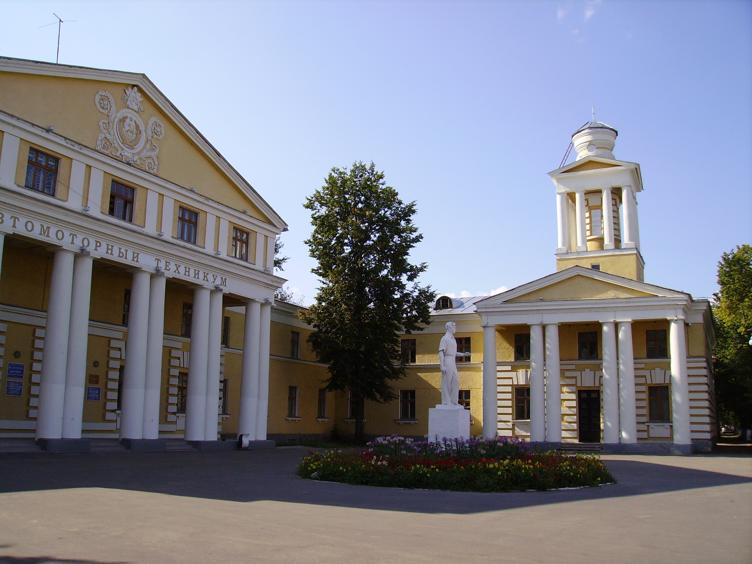 Zavolzhye. The Car-engines College